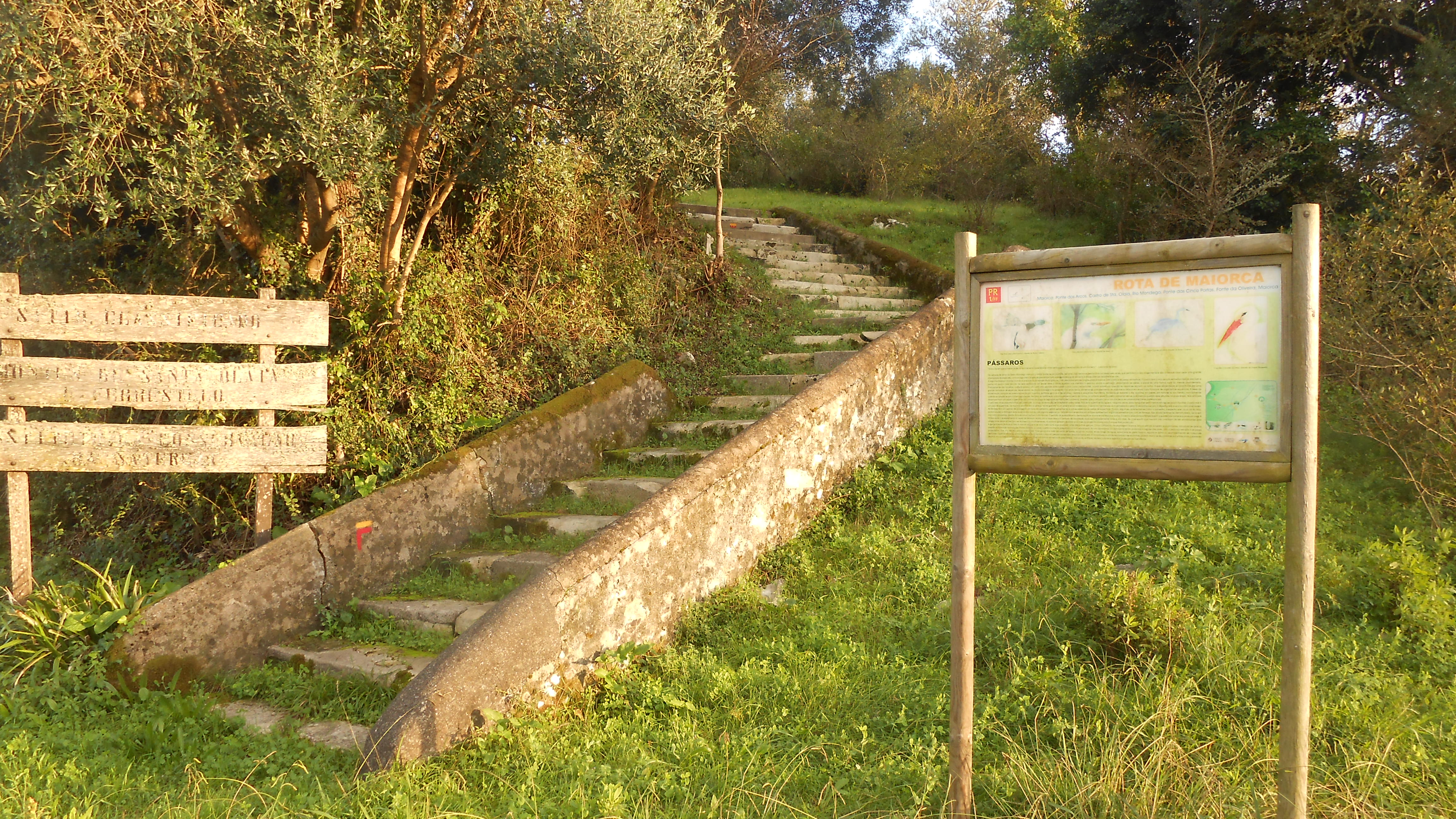 Western entrance to the ruins of the iron age village in the archaelogical site of Santa Olaia in the Figueira da Foz municipality, Portugal.